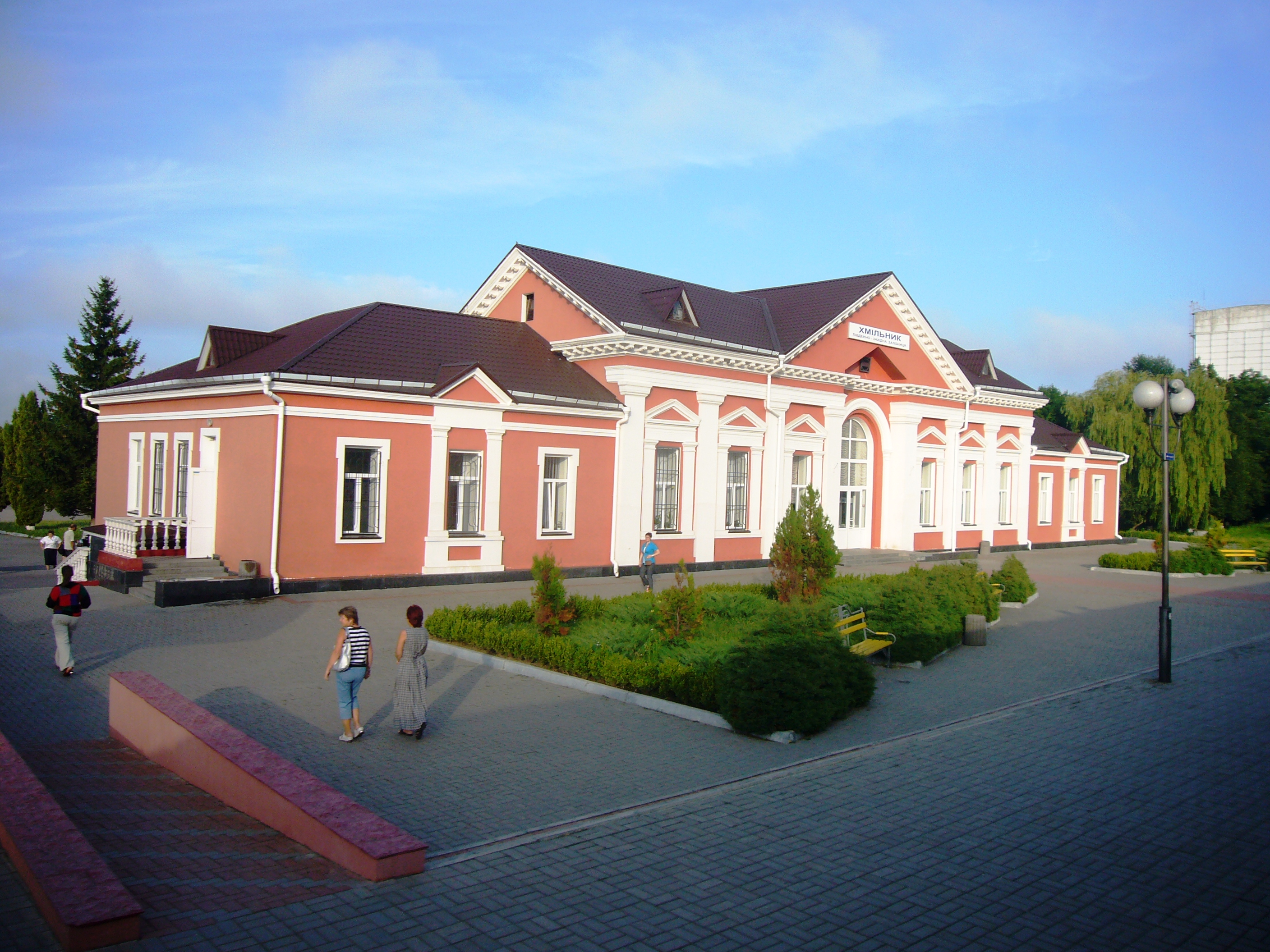 Khmilnyk Railway Station, Vinnitsa Oblast, Ukraine.